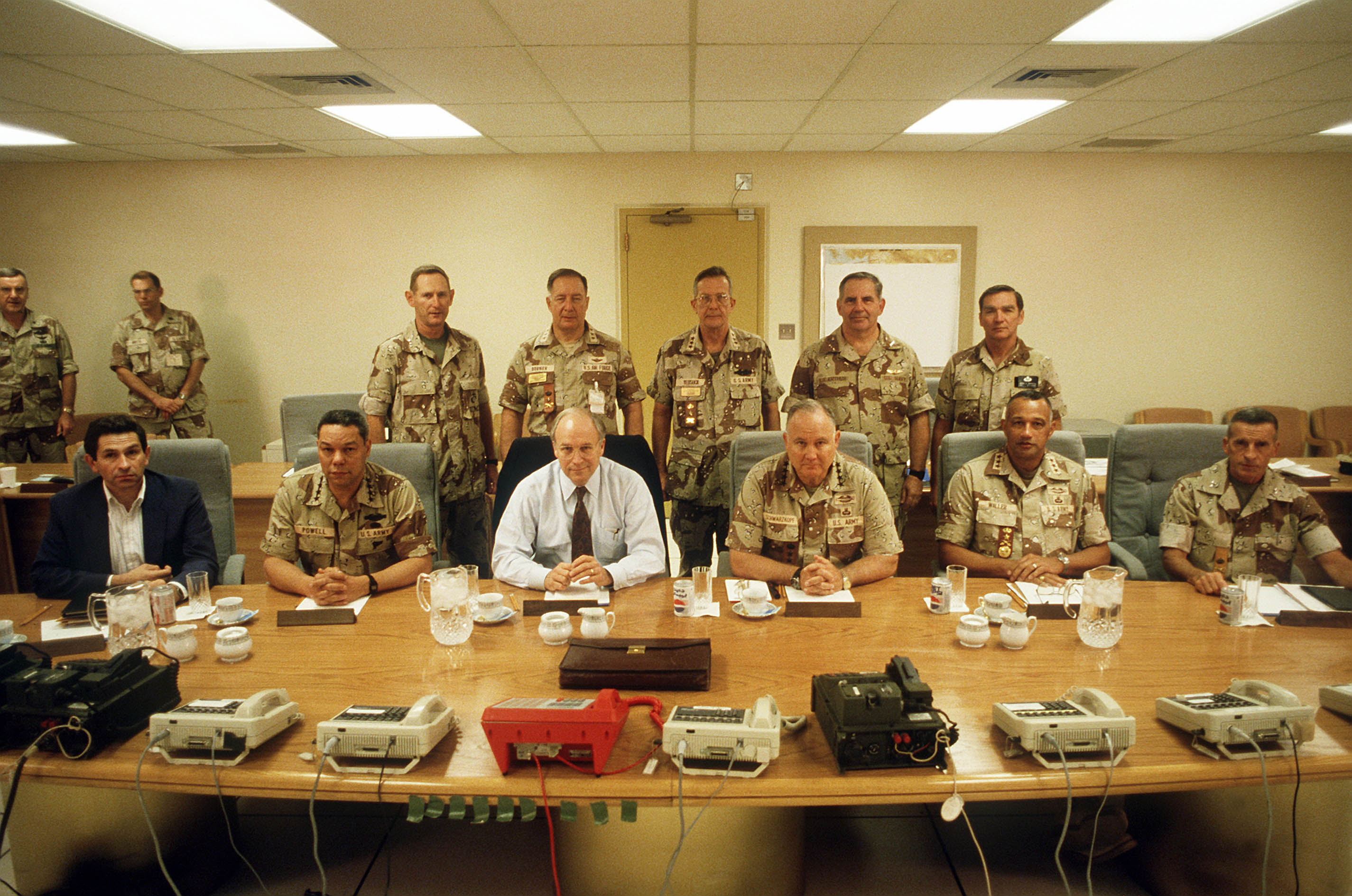 Civilian and military officials pose for a group photograph prior to discussing U.S. military intervention in the Persian Gulf during Operation Desert Shield. Dignitaries include, from left: Paul Wolfowitz, under sec. of defense for policy; Gen. Colin Powell, chrm., Joint Chiefs of Staff; Dick Cheney, sec. of defense; Gen. Norman Schwarzkopf, cmdr-in-chief, USCENTCOM; Lt. Gen. C. Waller, dep. chief of staff, USCENTCOM; and Maj. Gen. R. Johnston. Back row: Lt. Gen. W. Boomer, cmdr., I MEF; Lt. Gen. C. Horner, cmdr., 9th AF, TAC; Lt. Gen. J. Yeosock, cmdr., 3rd Army; Vice-Adm. S. Arthur, cmdr., Seventh Flt. and Col. Johnson.